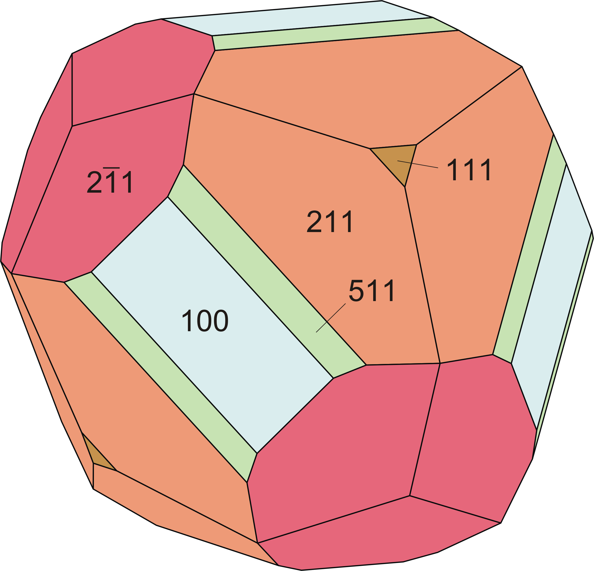 Drawing of a face-rich Pucherite crystal from Schneeberg, Saxony; reference: G. vom Rath (1869), Poggendorffs Annalen Physik Chemie vol. 136, p. 416